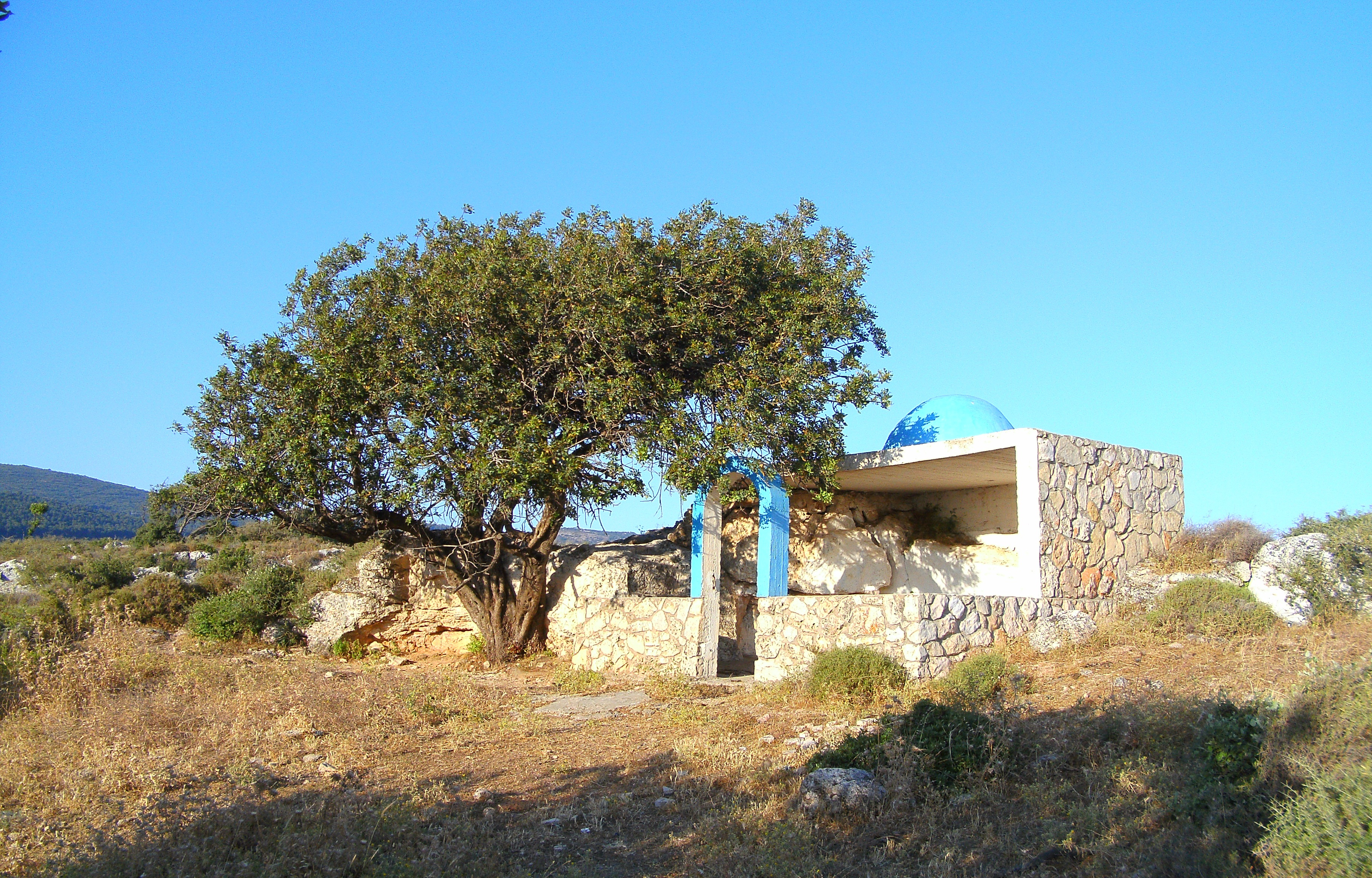 רבי זכריה בן הקצב ורבי חנינא סגן הכהנים